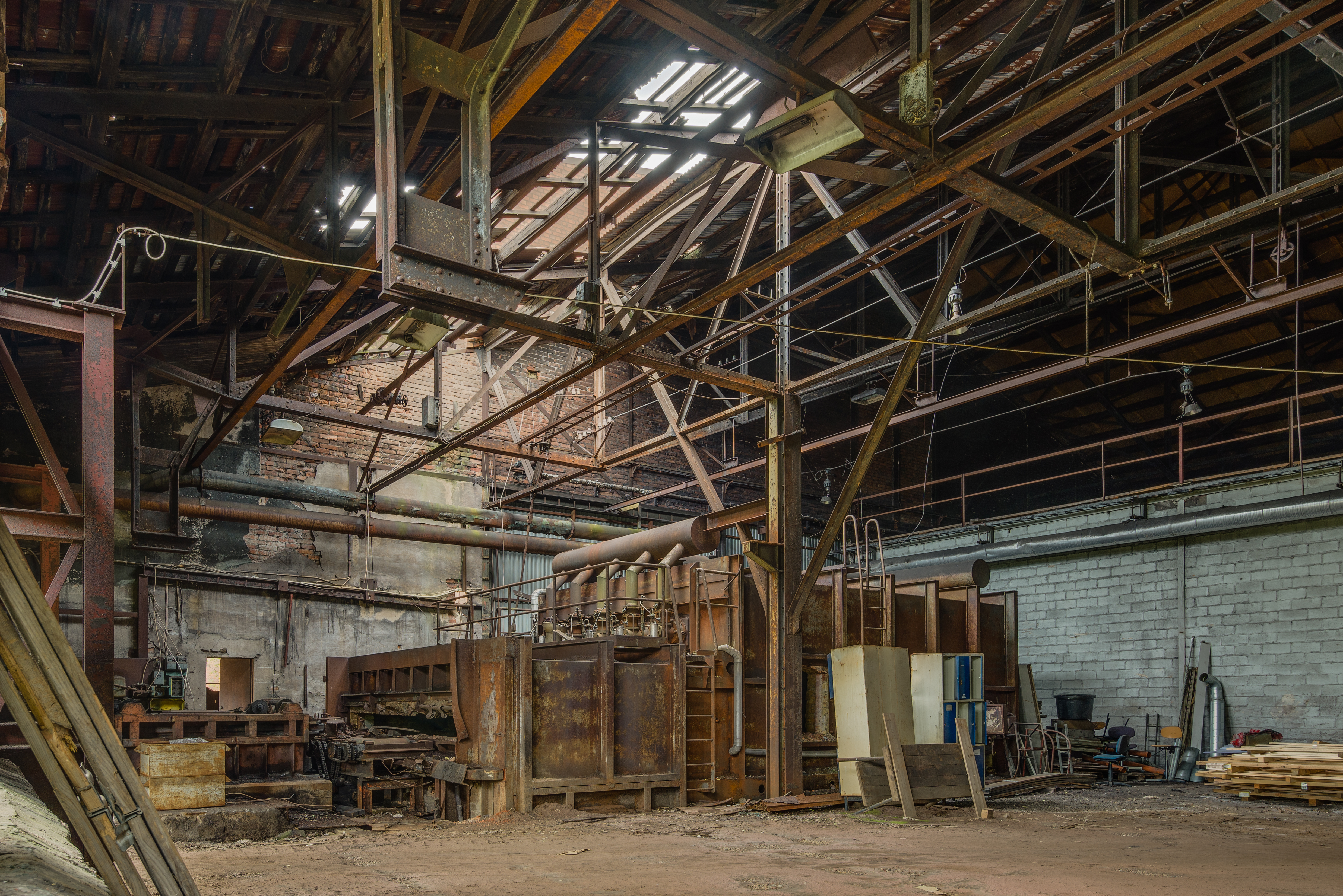 Former rod mill of Horndal, Avesta Municipality, Sweden.